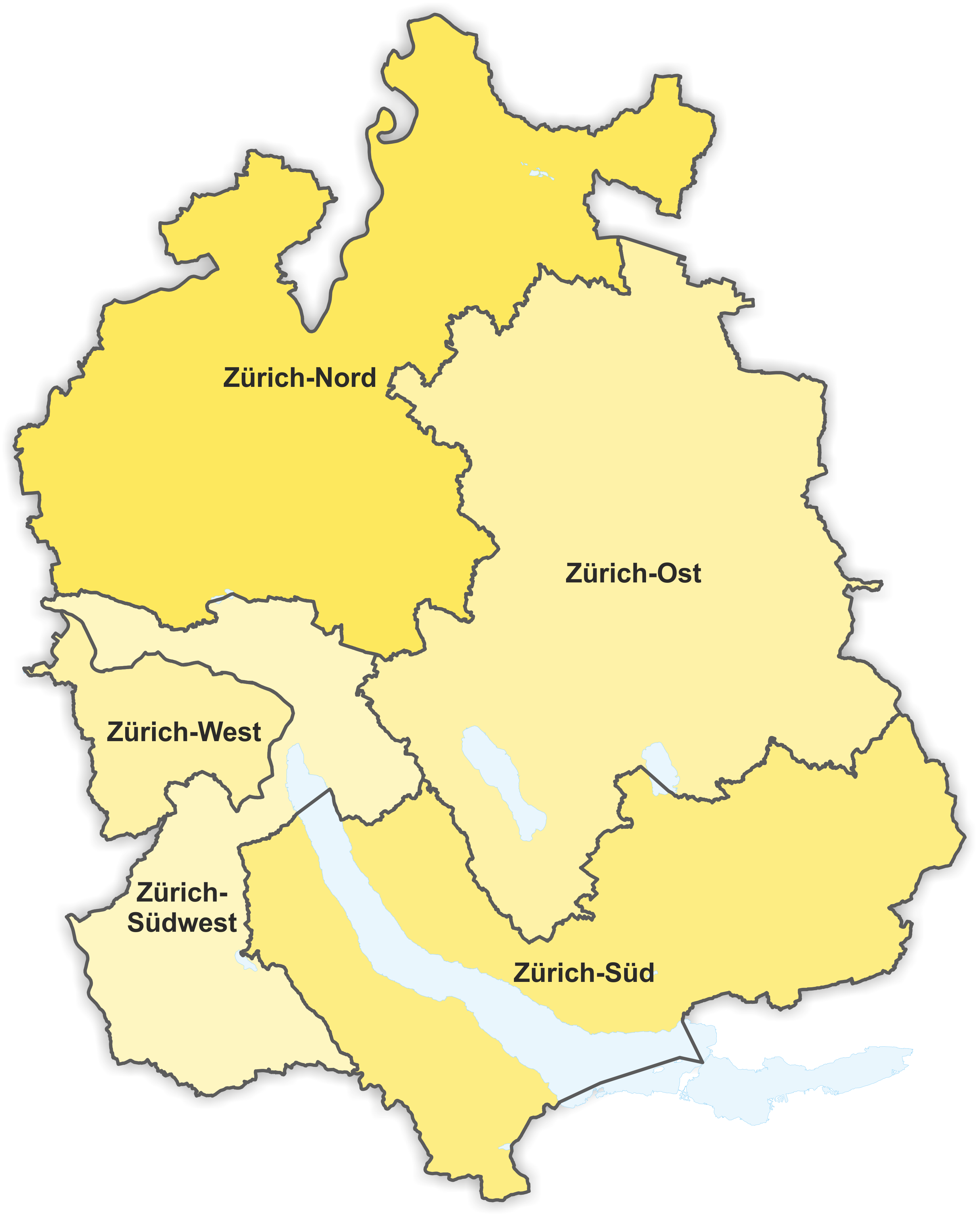 National council constituencies in the canton of Zürich from 1911 to 1917